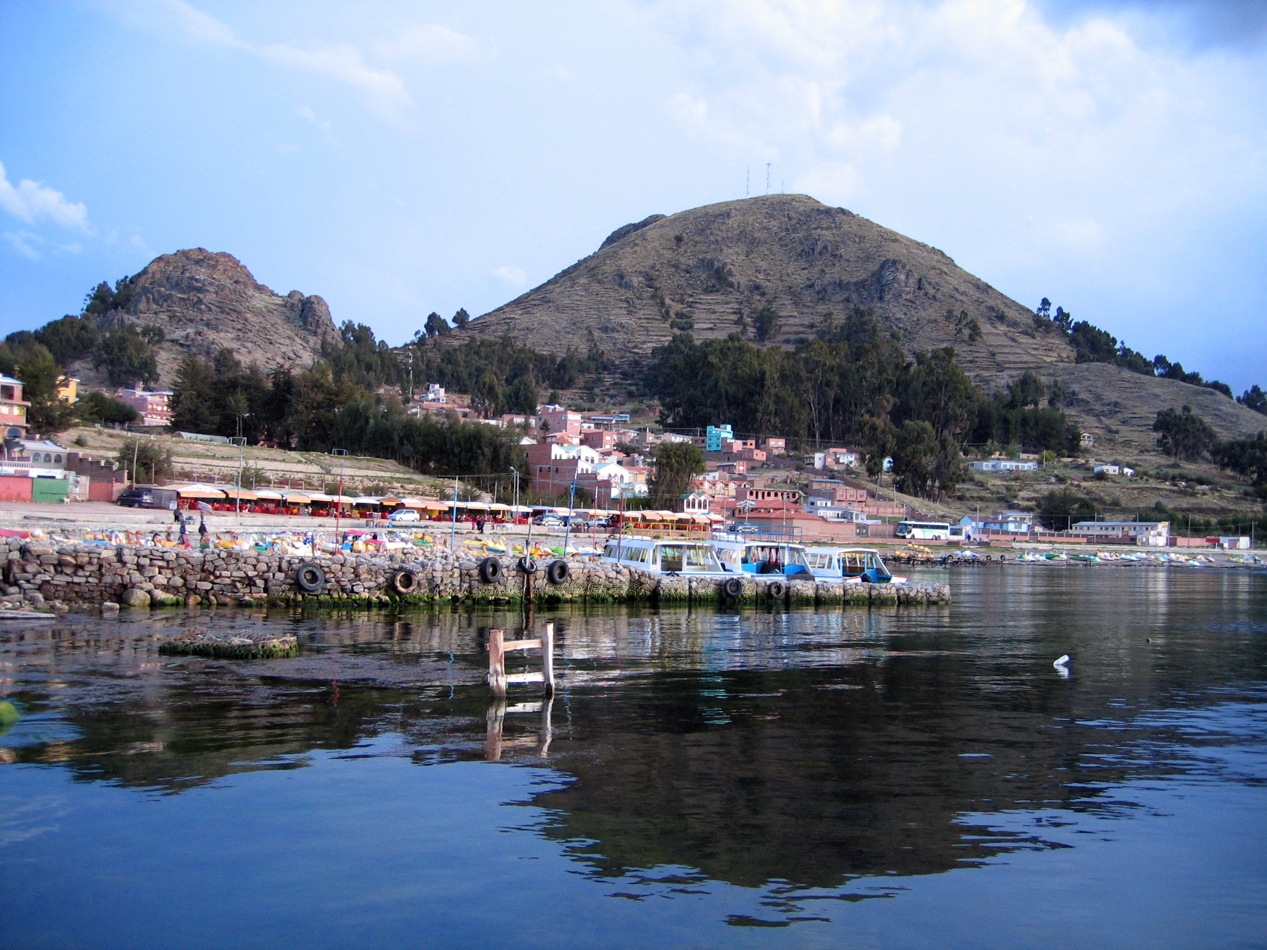 Copacabana, Bolivia